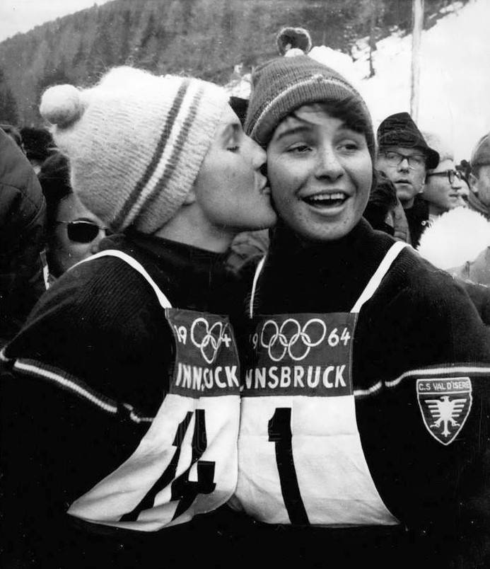 Press Photo of Christine Goitschel and sister Marielle at the Slalom race at the 1964 Winter Olympics